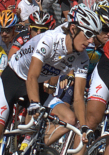 Andy Schleck in Paris - Tour de France 2009